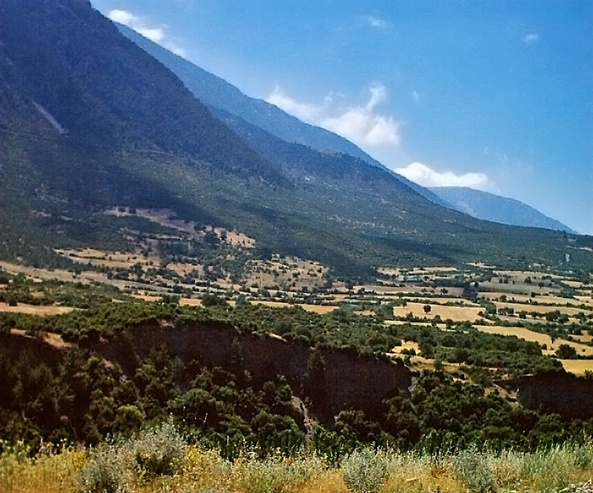 Typical landscape from Mugla inland province